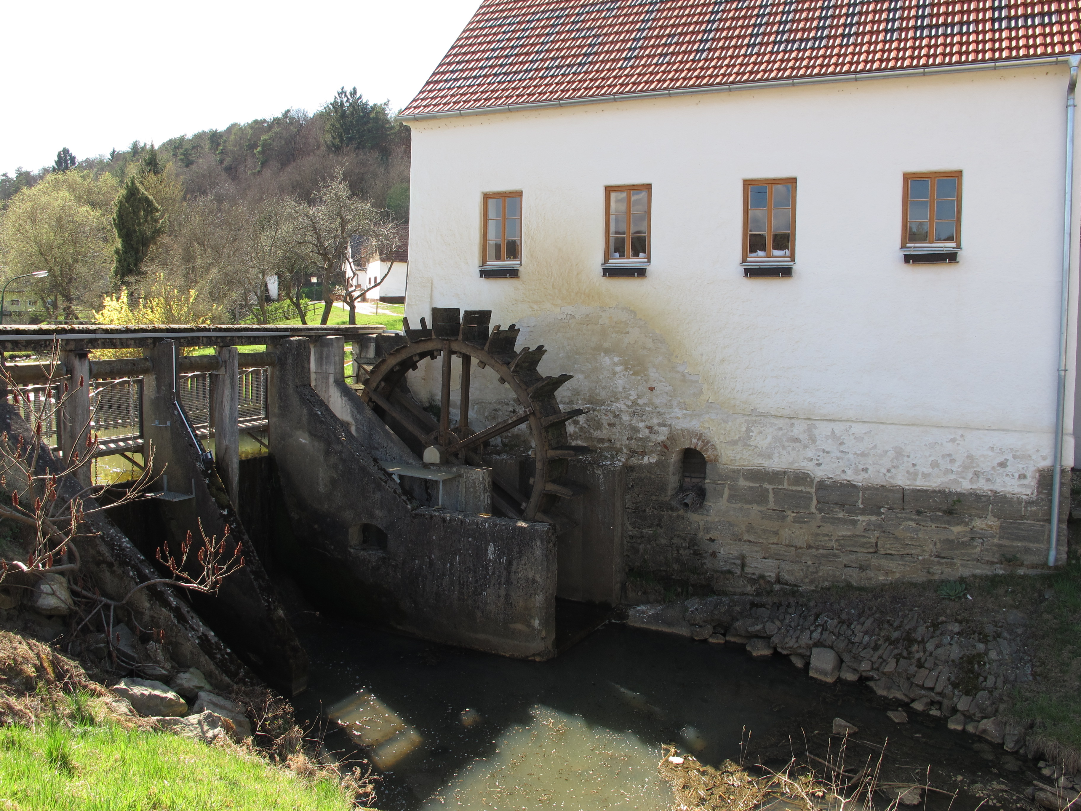 Jost Mühle Windisch-Minihof, am Doiberbach